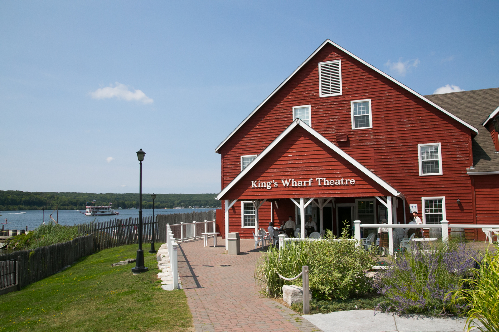 Kings Wharf Theatre - 2016